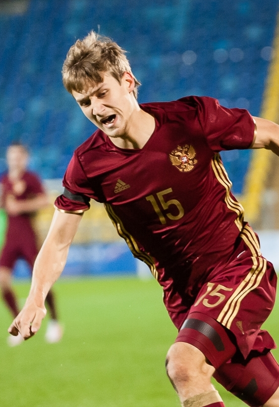 Dmitri Zhivoglyadov